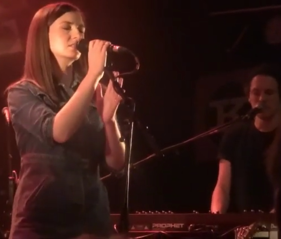 Varley at Madeline Junos "Was bleibt Tour 2019" in Hamburg.